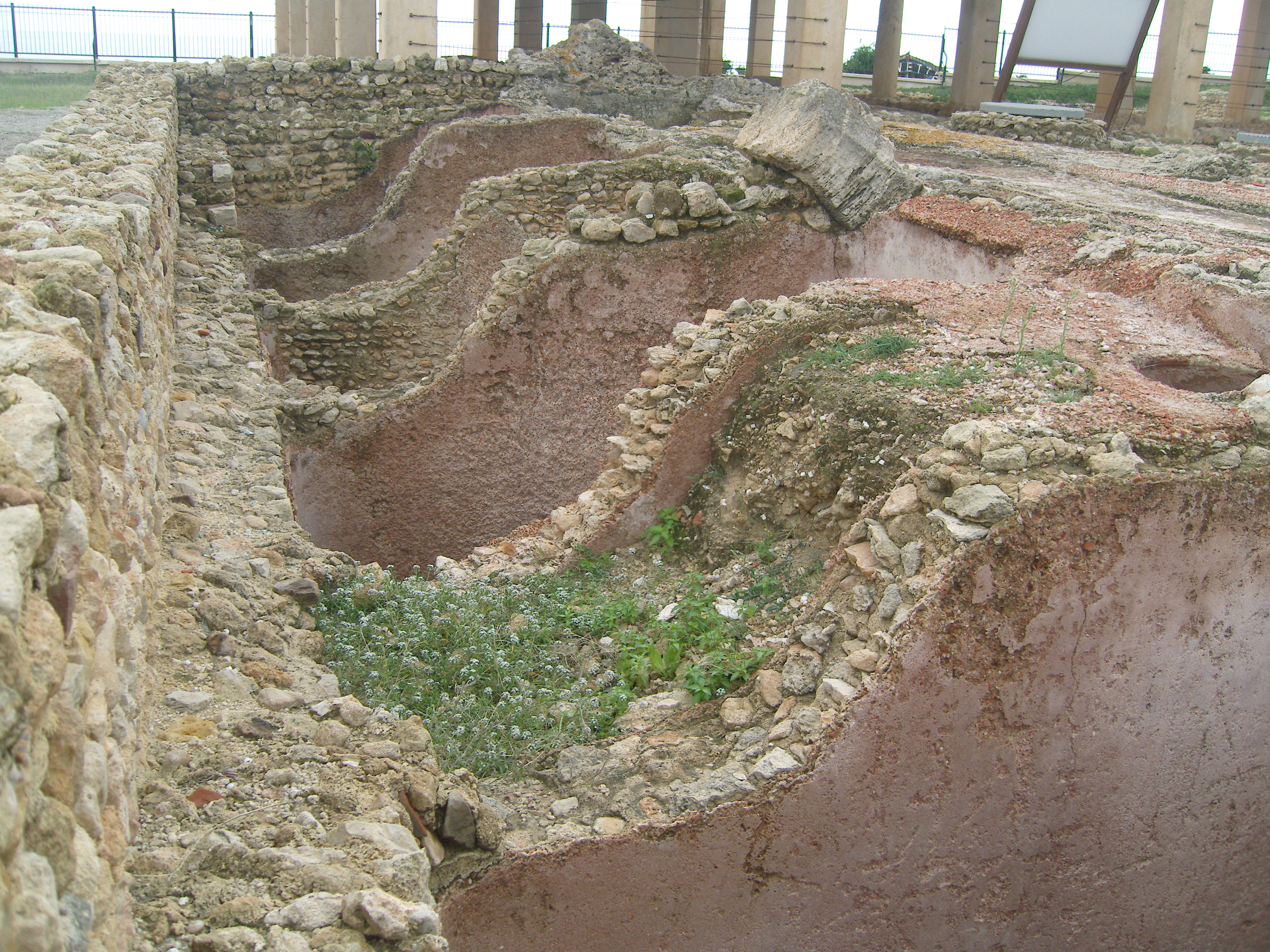 The fish-salting factories in Neapolis archeological site